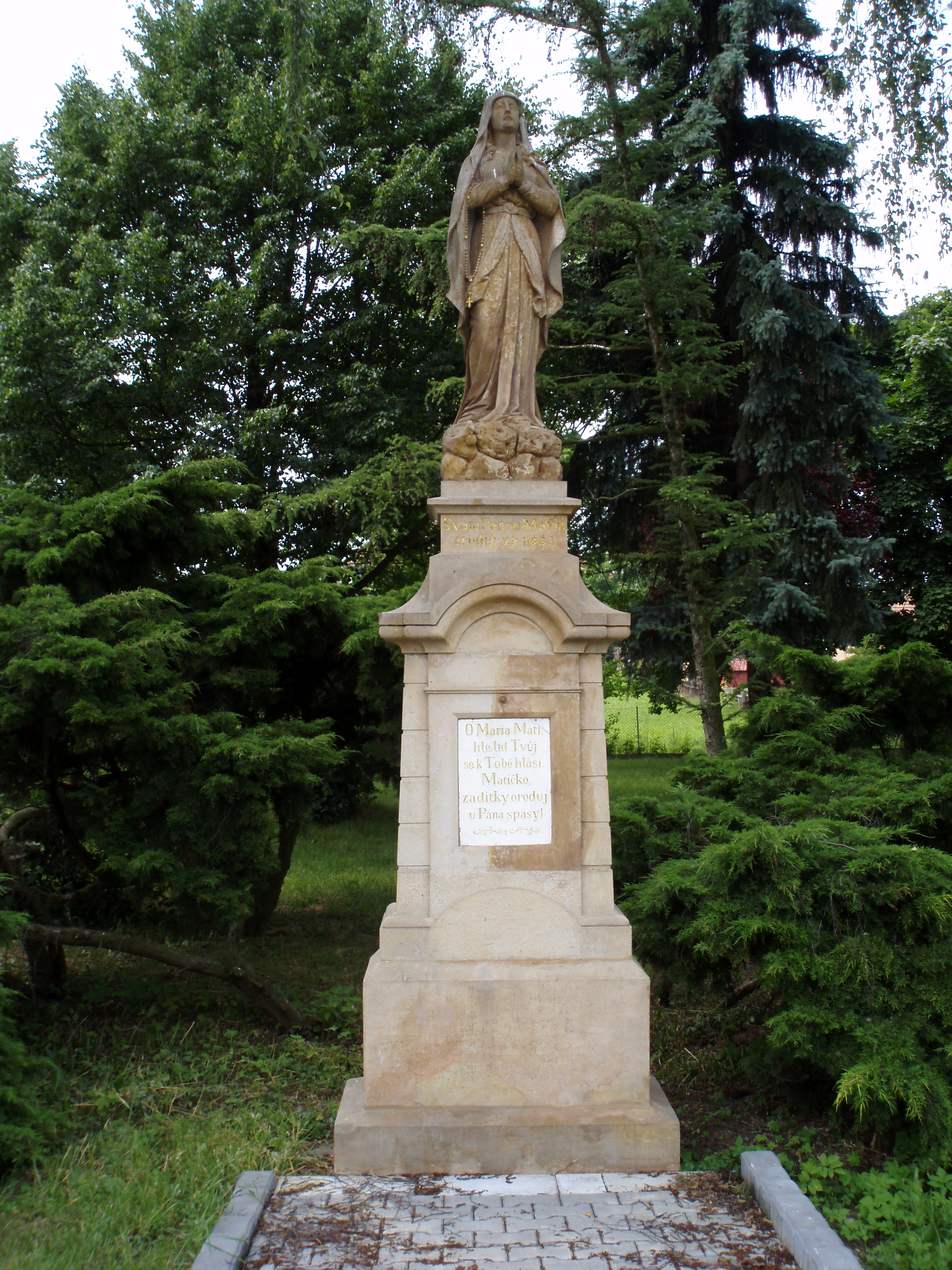 Sculpture of the Virgin Mary in Bukovina nad Labem, Pardubice District, Czech Republic